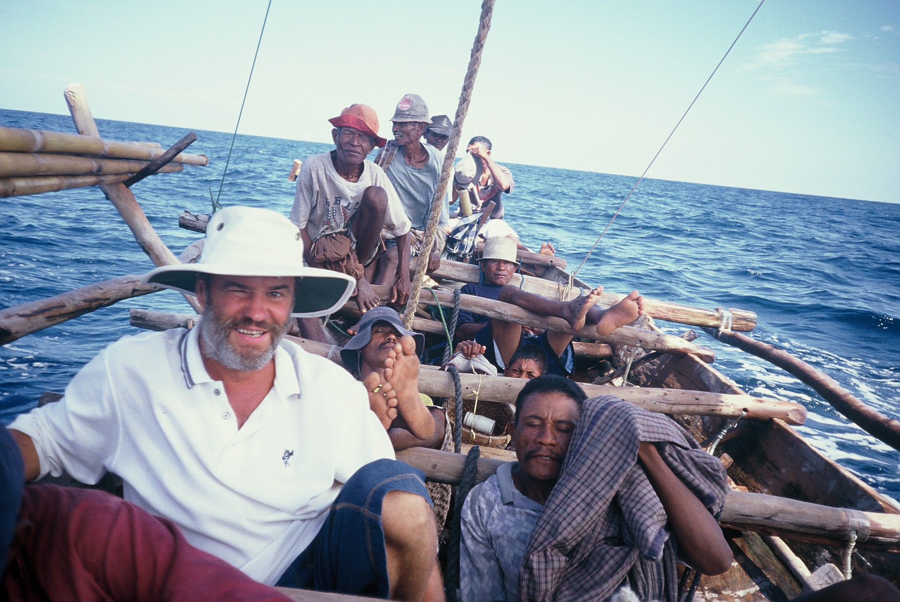 John David Morley (left) with the fishermen of Lamalera